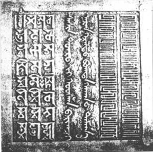 Imperial Seal of Bogd Khan, using from right to left the mongol writtings Soyombo, Bicig (traditionnal) and Phags-pa (here mirrored du to seal technic).